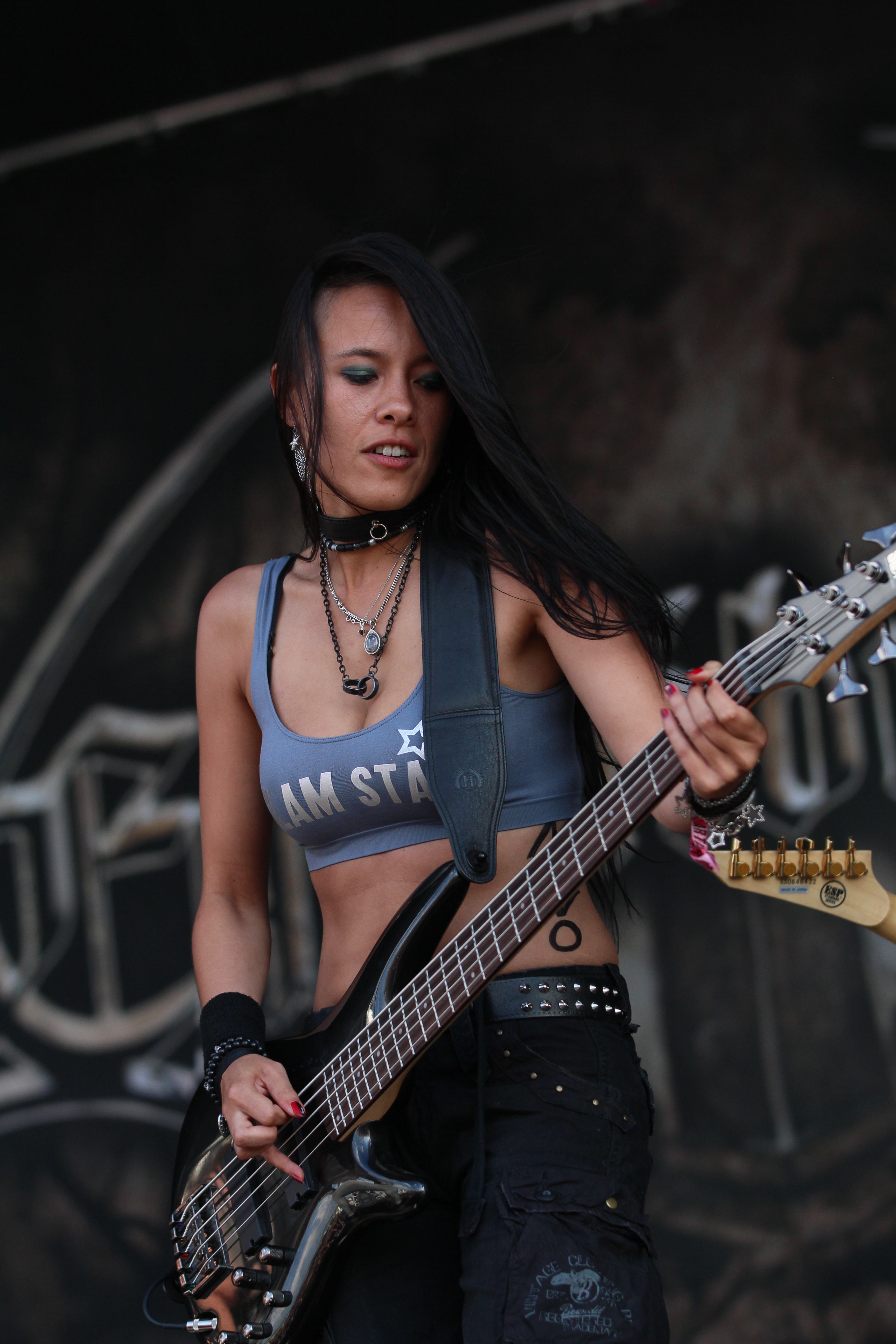 The German pagan metal band Equilibrium at the Rockharz Open Air 2014 in Ballenstedt/Germany